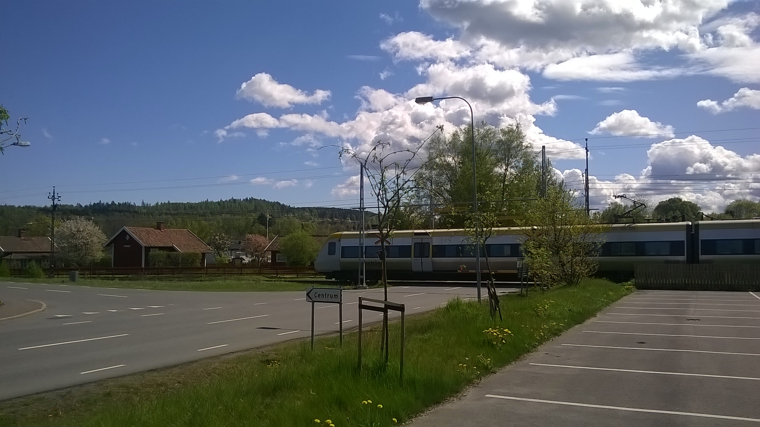 A train passes by on the railway tracks at Bankeryd, Sweden. 14 May 2015.